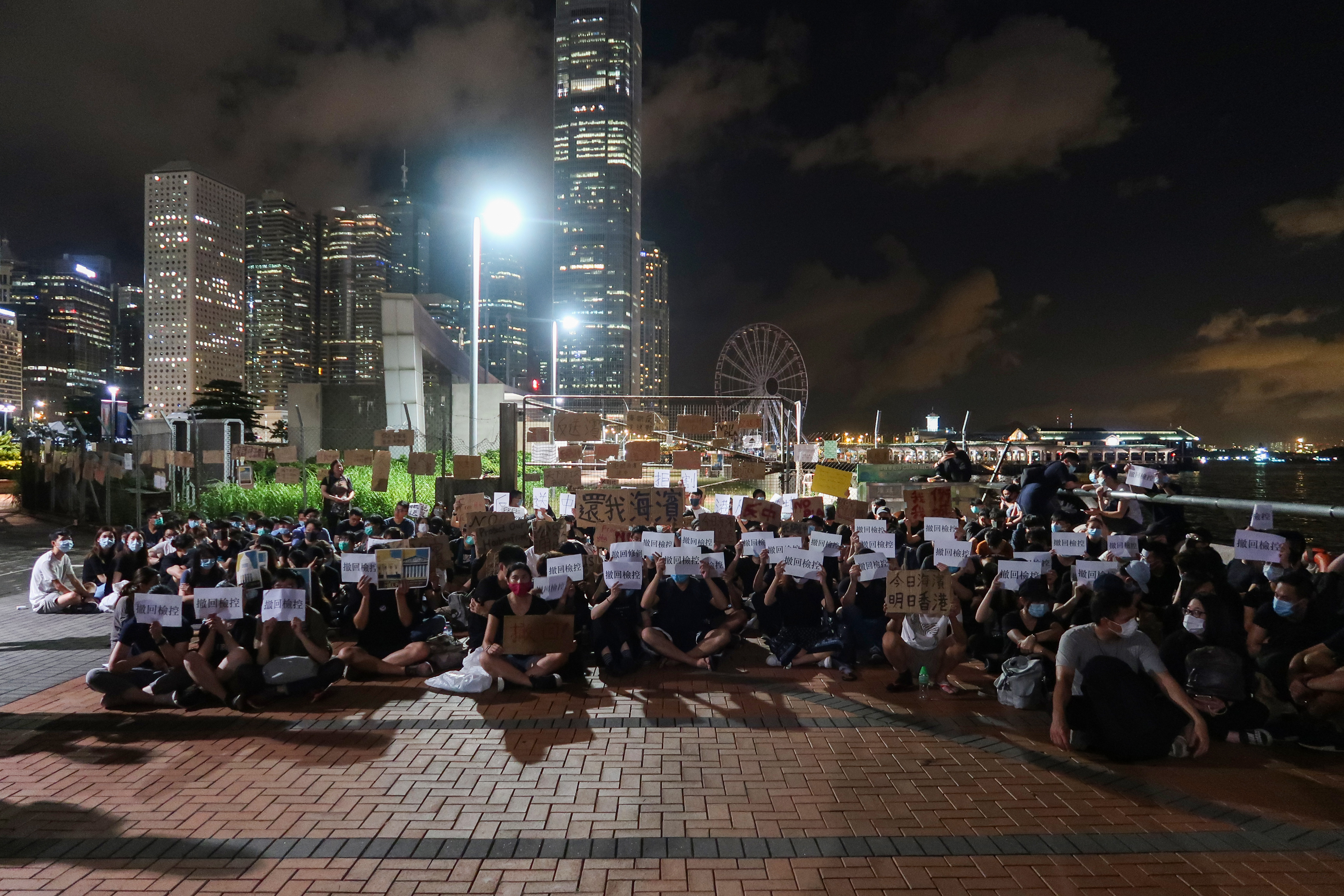 People against Central Military Dock